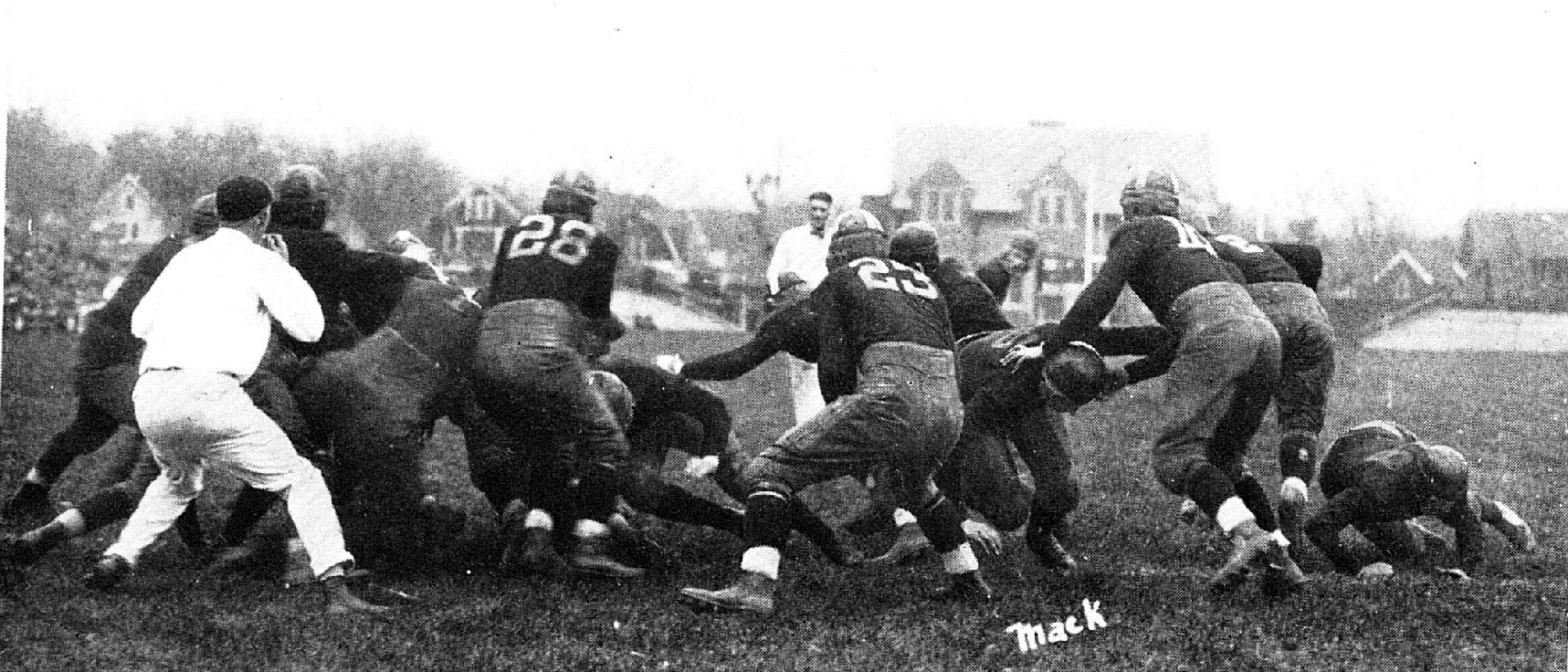 Photograph of Franklin Cappon running for a touchdown against Michigan Agricultural College, November 1922.